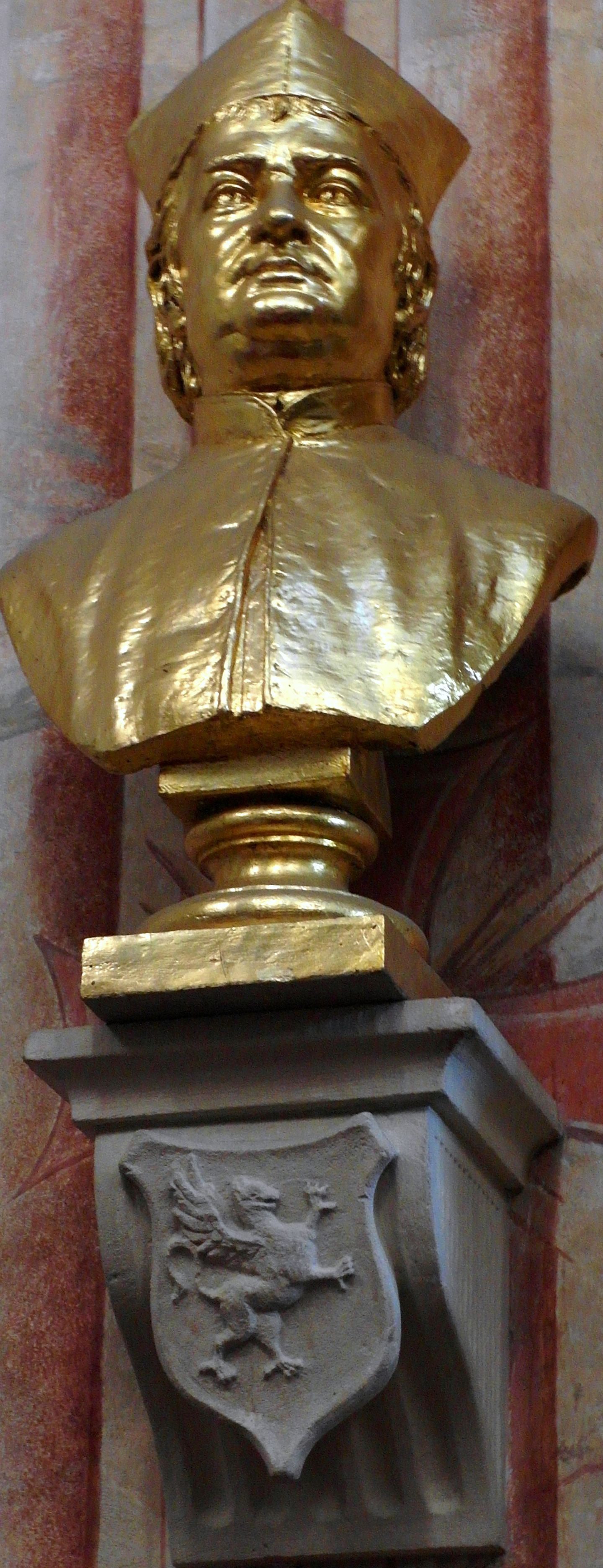 Bust of Stanisław Konarski in Church of the Transfiguration in Kraków